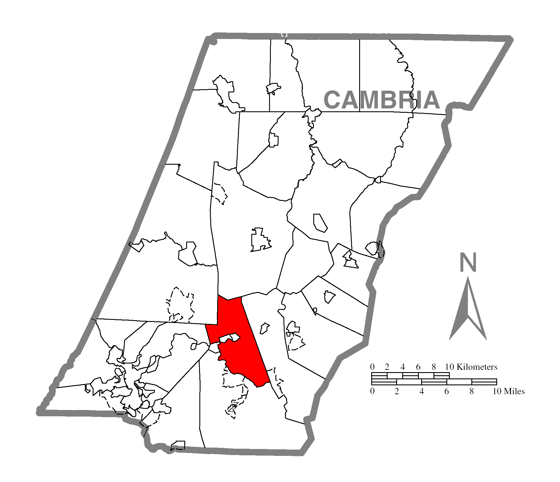 A map of Cambria County showing Croyle Township, Pennsylvania (alternate) highlighted on the map.